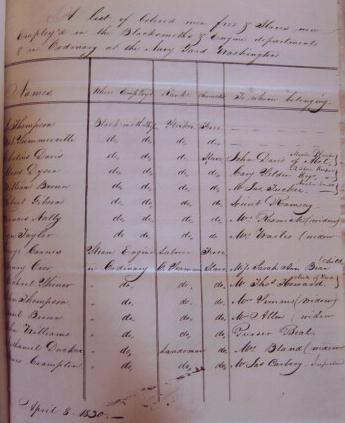 April 1829 list of Washington Navy Yard employees enslaved and free. Among those enumerated is African American diarist Michael Shiner and Joe Thompson successful litigant in Thompson v Clarke